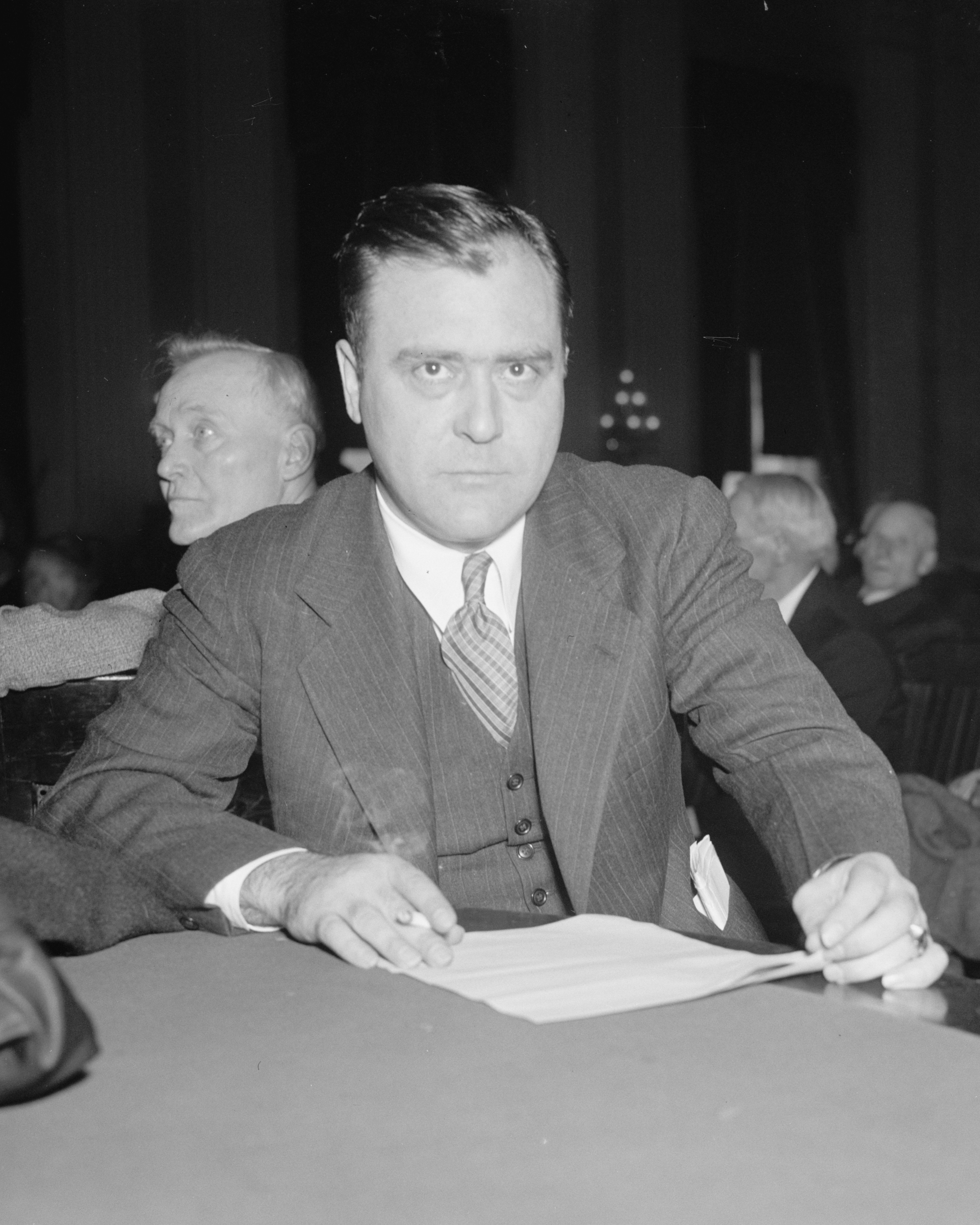 Title: Rep. Gerald J. Boileau, of Wisc. Abstract/medium: 1 negative : glass ; 4 x 5 in. or smaller